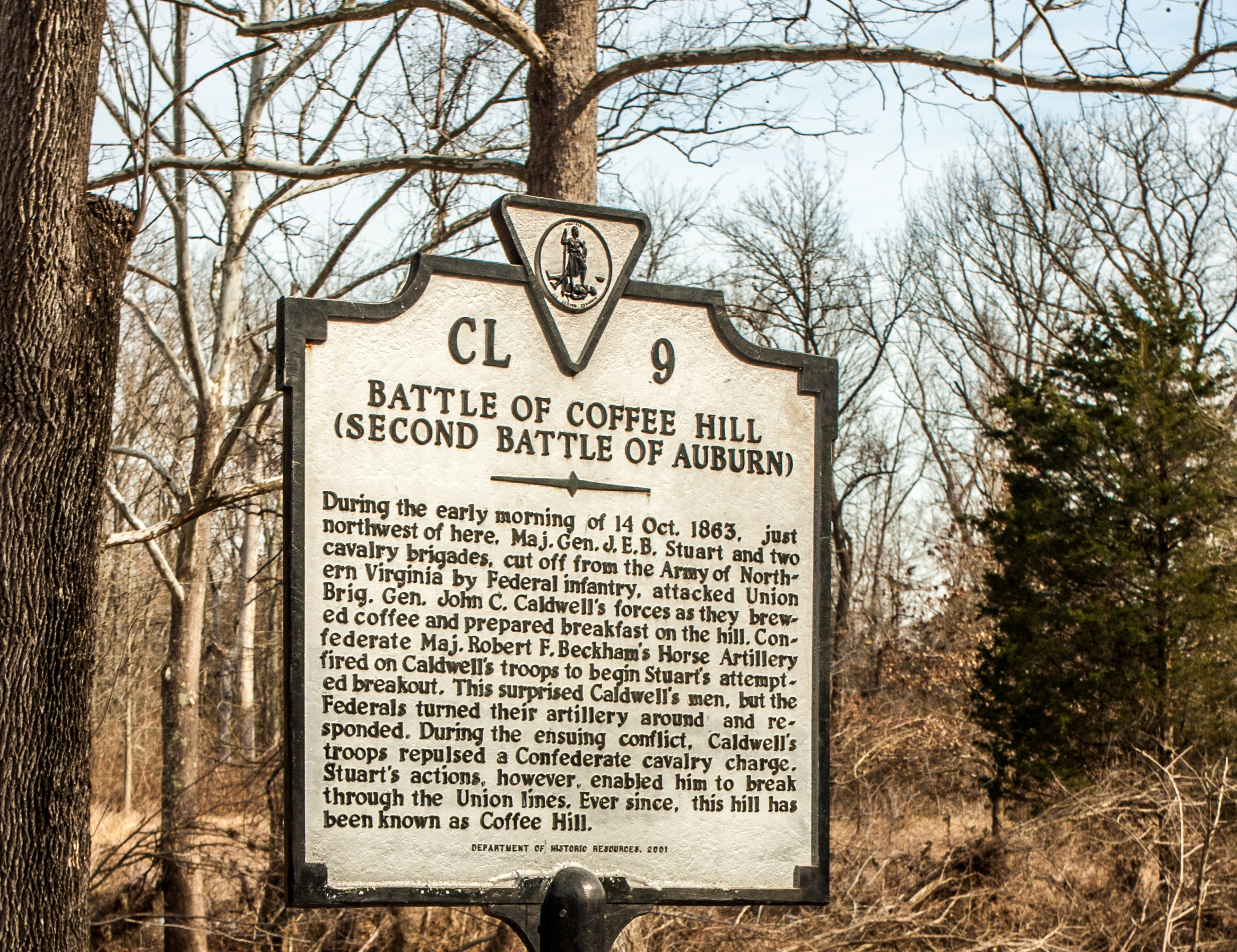 Historic marker designating the Second Battle of Auburn, Virginia